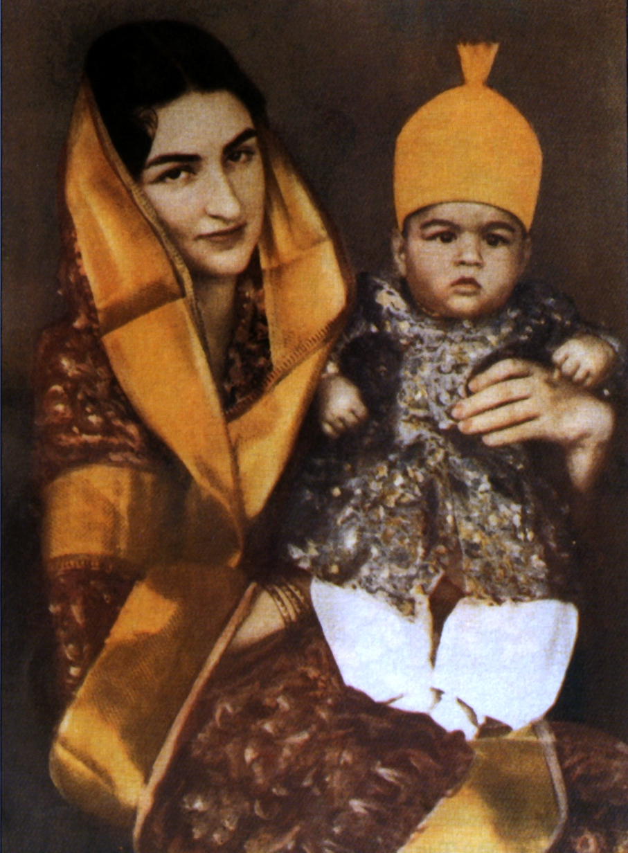 First official photograph of Asaf Jah VIII, with his mother Dürrühshehvar, daughter of the last Ottoman caliph. He would have become Nizam of Hyderabad after the death of his grandfather Asaf Jah VII. He instead operated a sheep station in Western Australia.